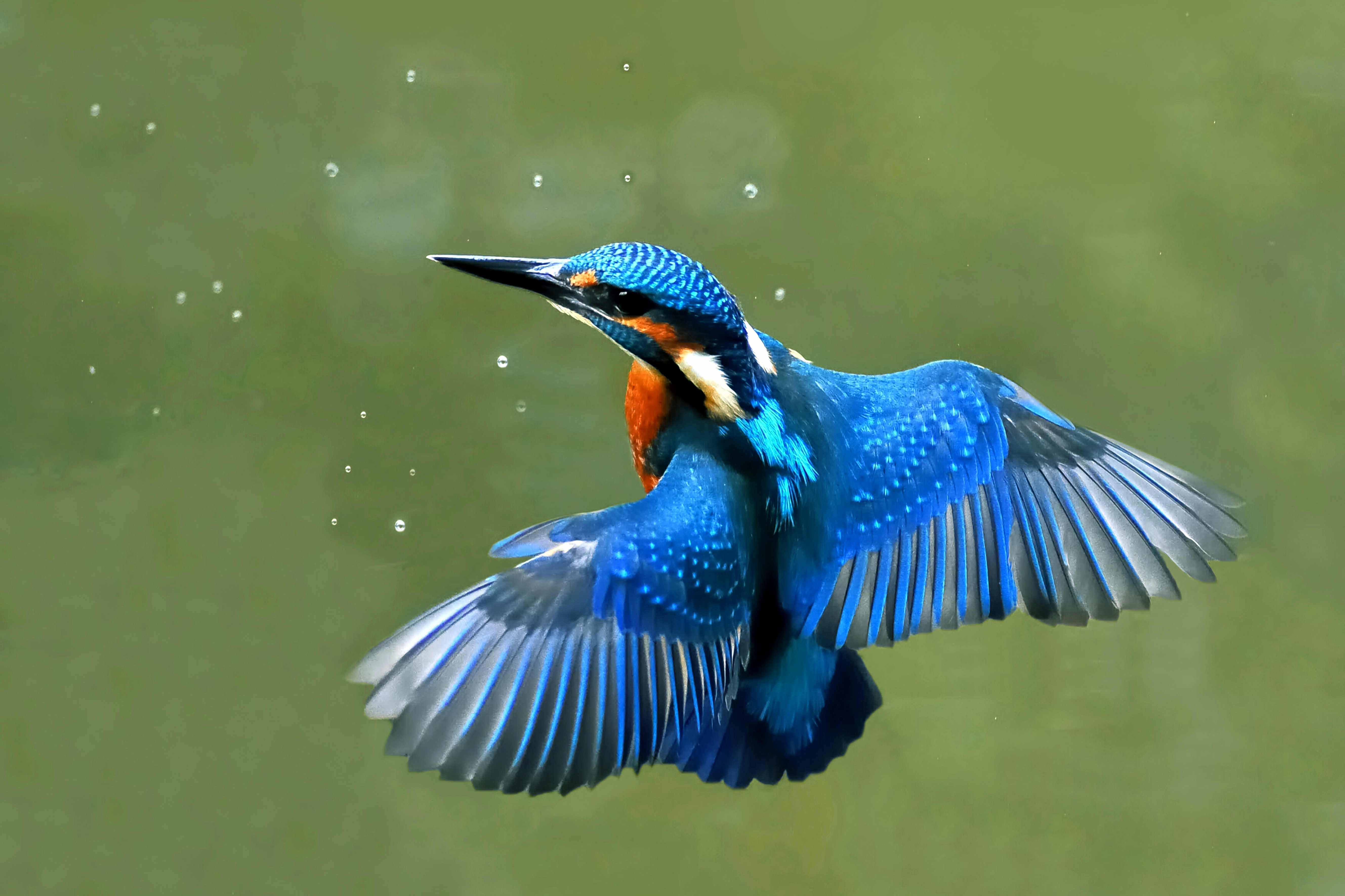 A kingfisher (Alcedo atthis) in hovering flight in the nature reserve “Berke Laue II” (NSG BOR-070) in 48691 Vreden. This photo was taken from a camouflage tent. Grit of Berkel (southeast of lake Berkel and B70).